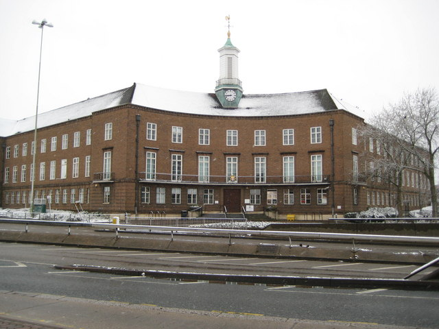 Watford Town Hall The Town Hall's foundation stone was laid in May 1938, and despite the start of the Second World War it was formally opened in January 1940, having cost about £186,000 to build. Watford Borough Council's website is here